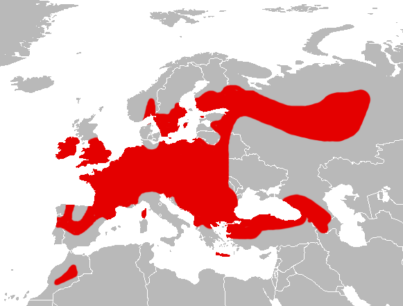 Distribution range map of Myotis mystacinus.